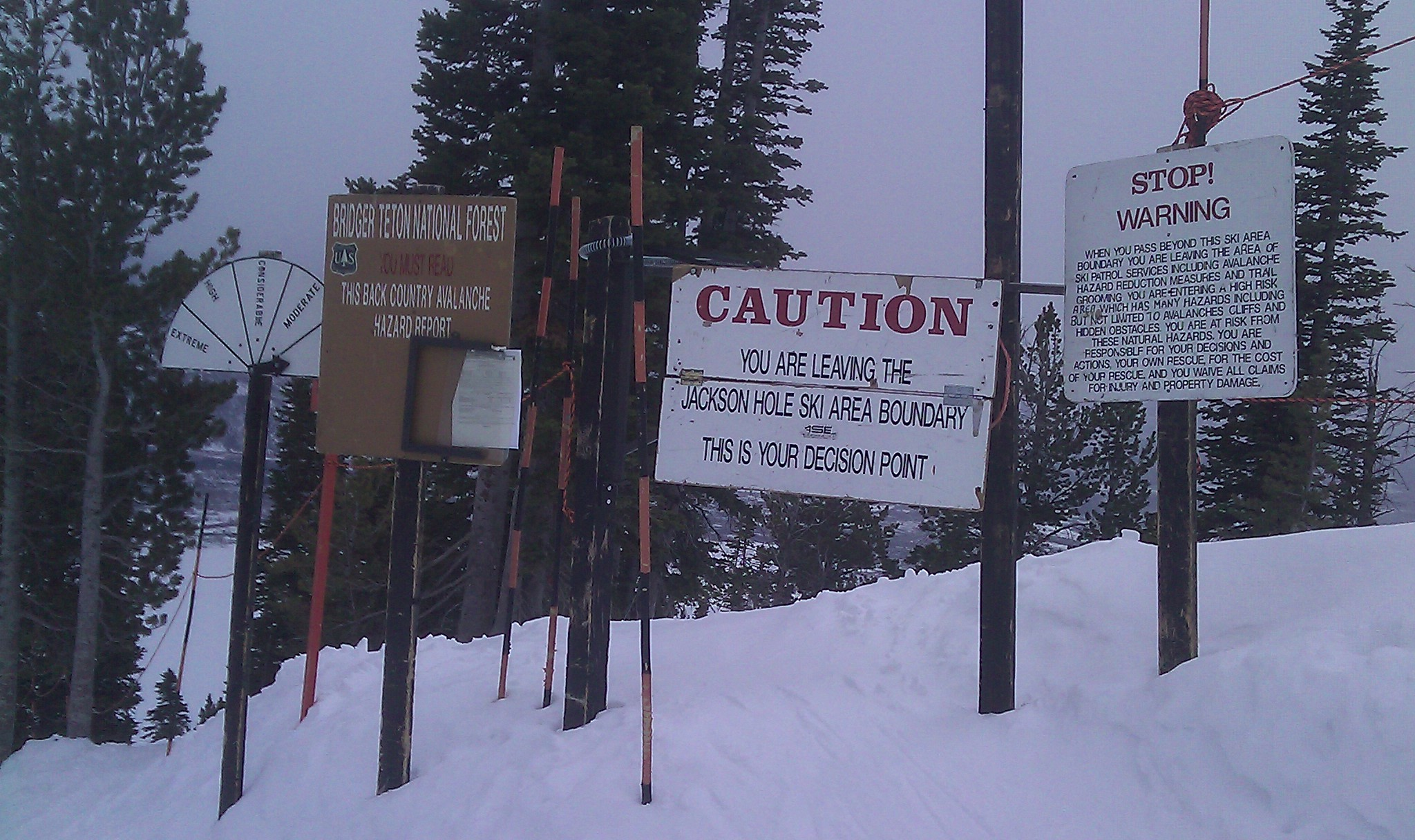 Jackson Hole Backcountry gate with all the warnings